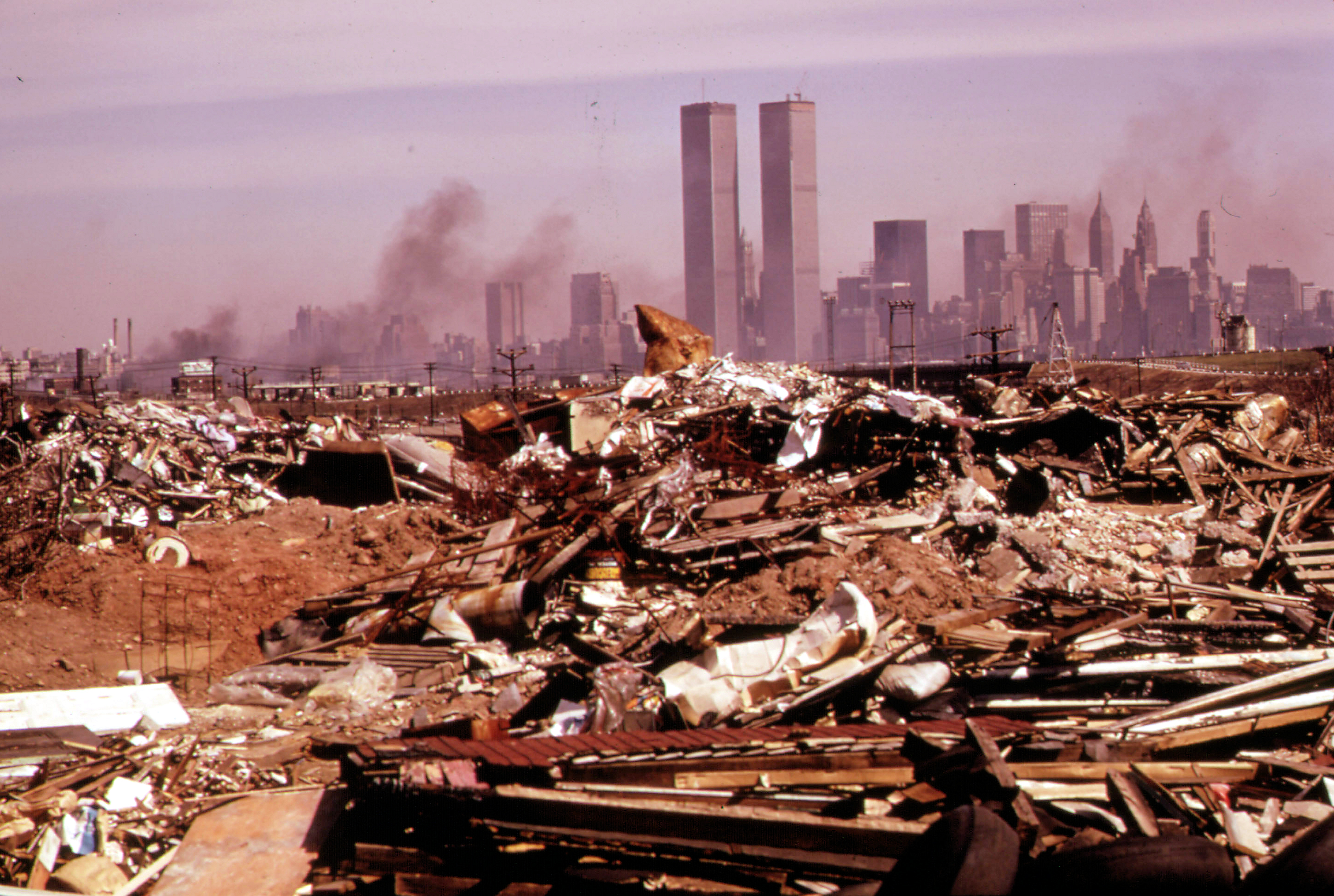 The U.S. National Archives Original Caption: Illegal Dumping Area off the New Jersey Turnpike, Facing Manhattan Across the Hudson River. Nearby, to the South, Is the Landfill Area of the Proposed Liberty State Park, 03/1973. Photographer: Miller, Gary From: Series: DOCUMERICA: The Environmental Protection Agency's Program to Photographically Document Subjects of Environmental Concern, compiled 1972-1977